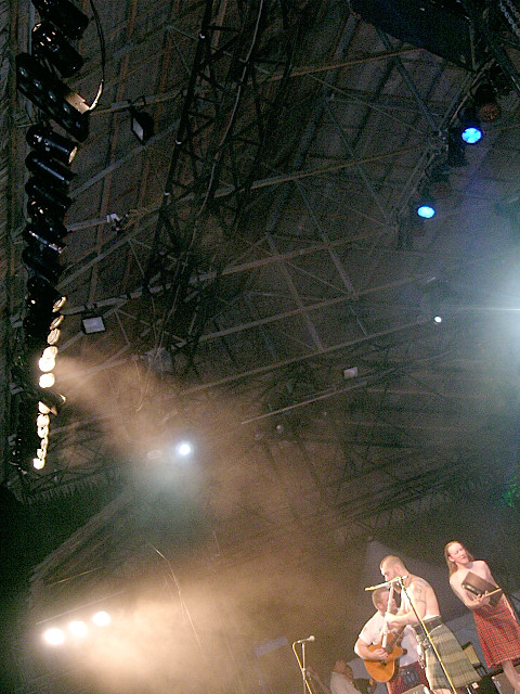 This are some of the members from the Polish group, Shannon, who performed at the Rainforest World Music Festival on July 8, 2005.